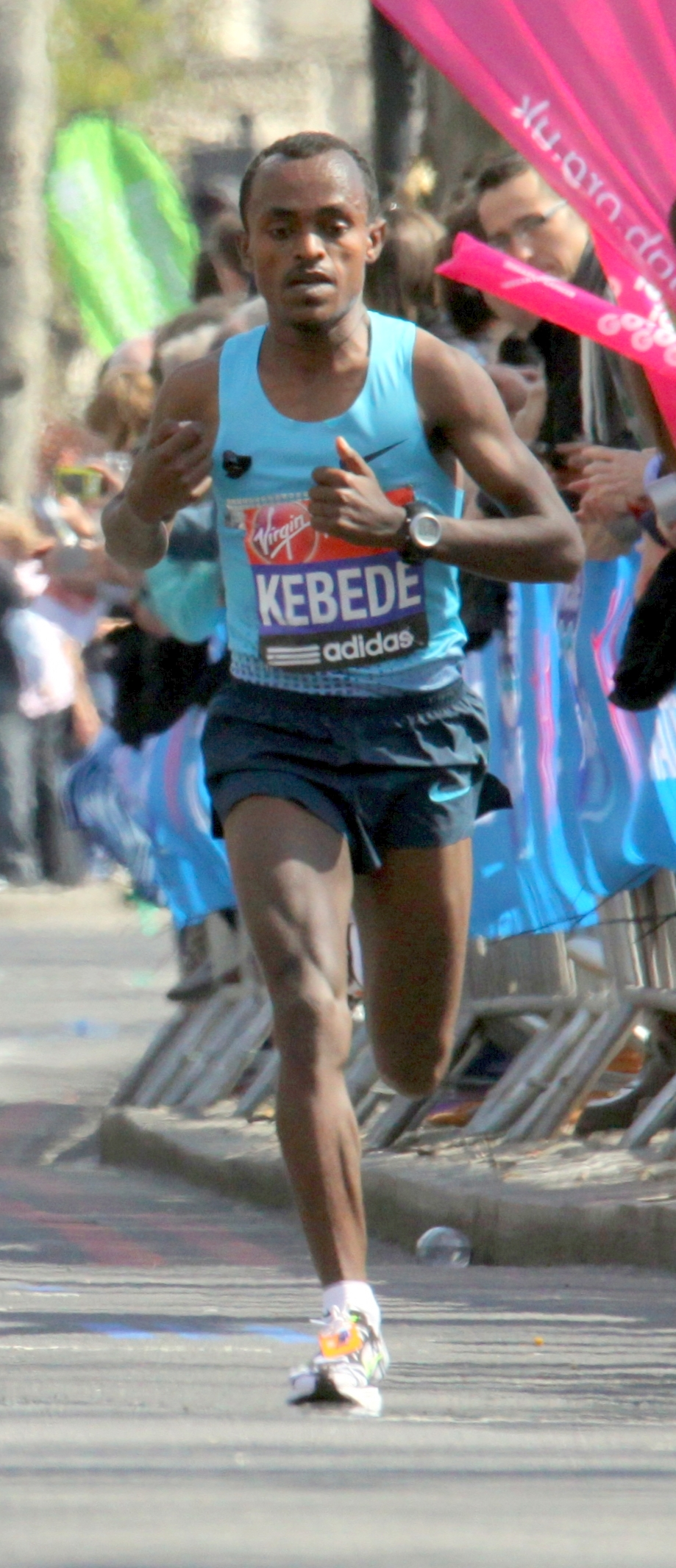 Tsegaye Kebede during 2013 London Marathon (crop of photo by user:Chmee2) 21 April 2013, 13:01:43